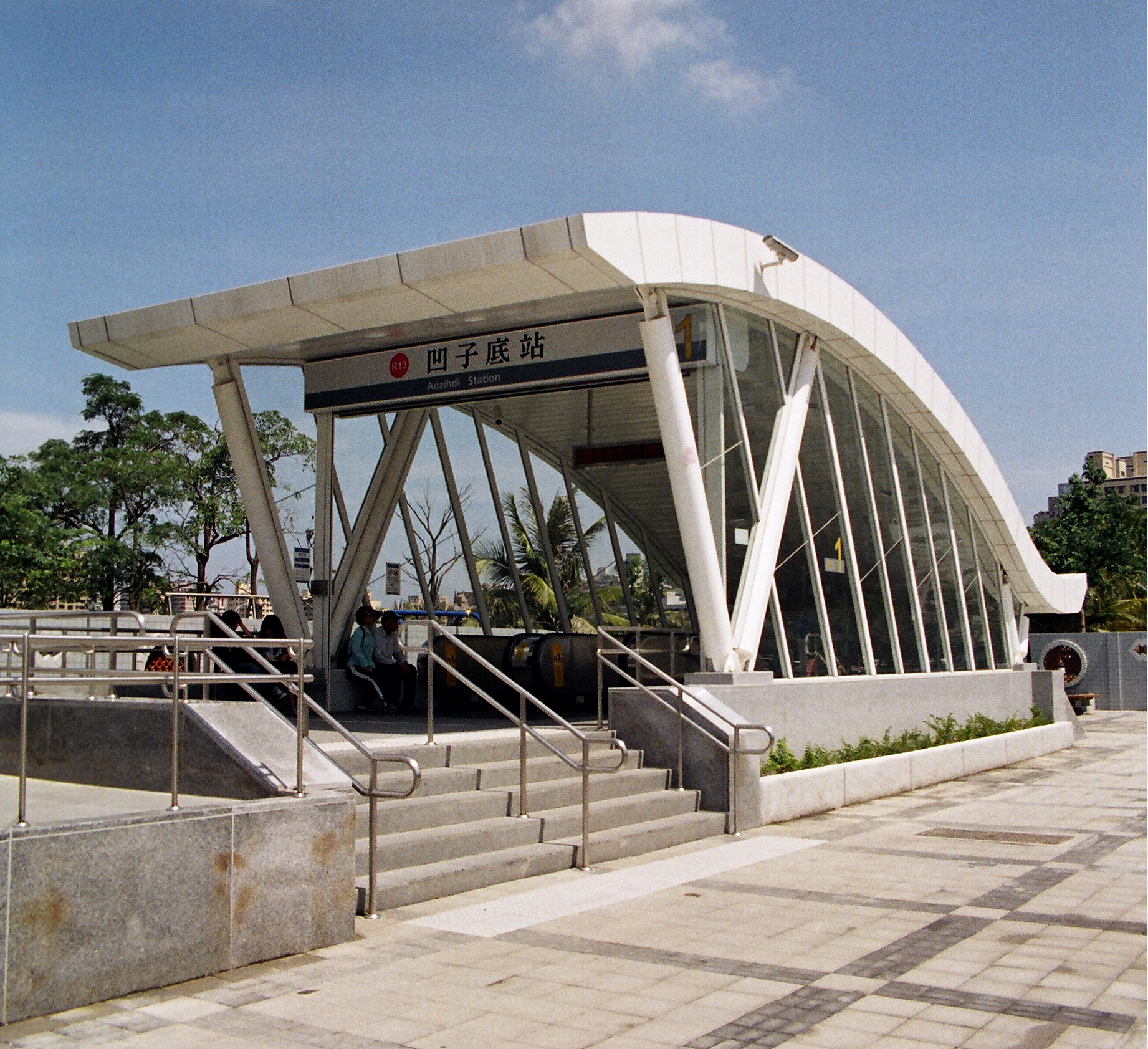 Kaohsiung MRT Aozihdi Station.